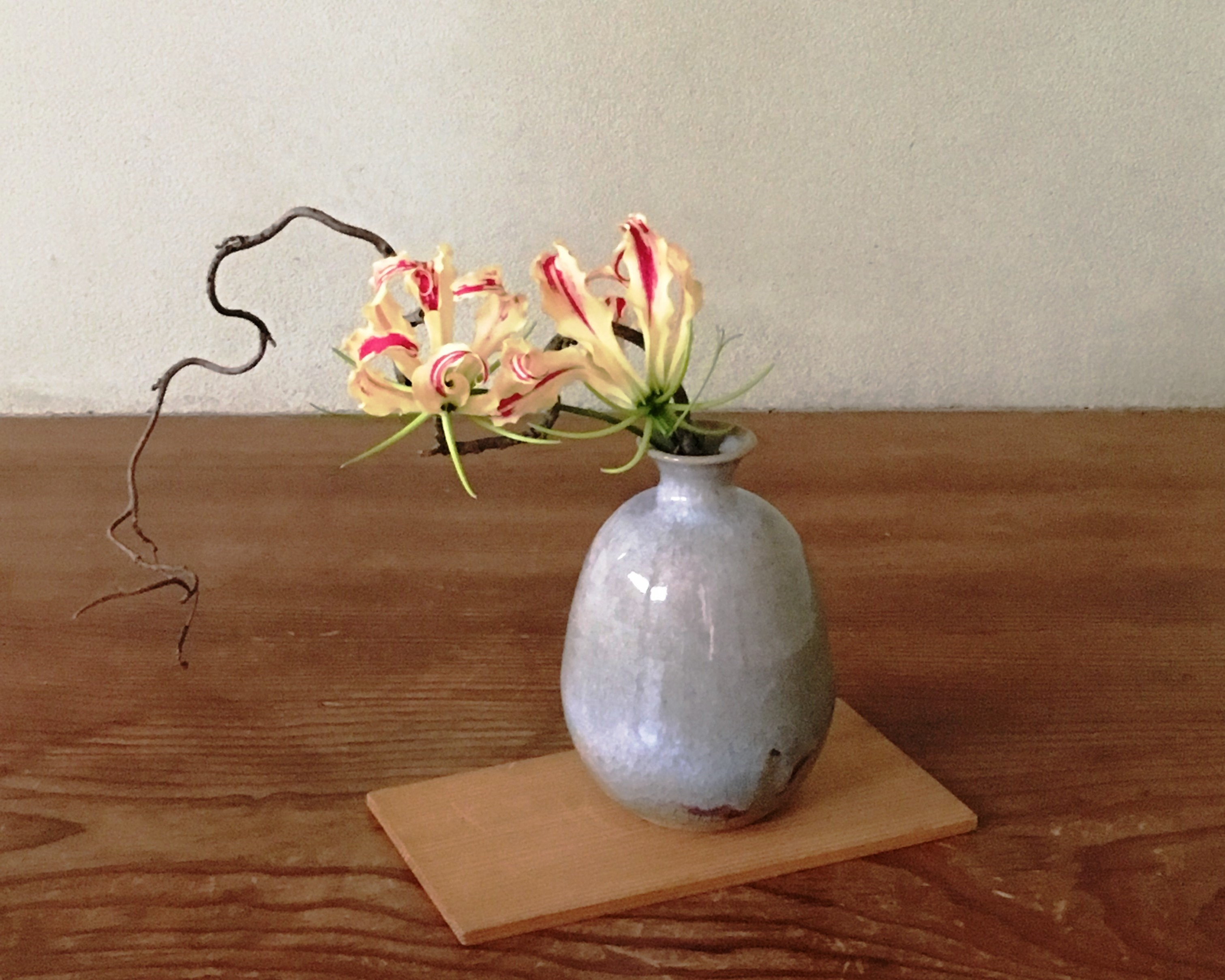 Shōfusō tea room with traditional summer chabana arrangement by the Sōgetsu-ryū school of ikebana, with tiger lilly.